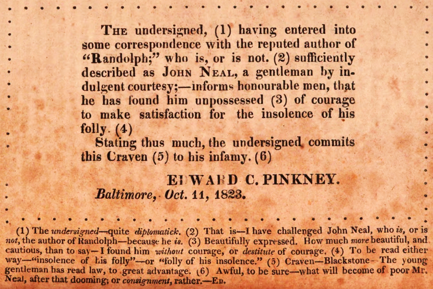 Public announcement posted in Baltimore, Maryland, USA by Edward Coote Pinkney in 1823 labeling eccentric and influential writer, critic, and activist John Neal as a coward for refusing a duel. Reprinted in the back Neal's 1823 novel Errata; or, The Works of Will. Adams with notations by John Neal. Scanned from the book.